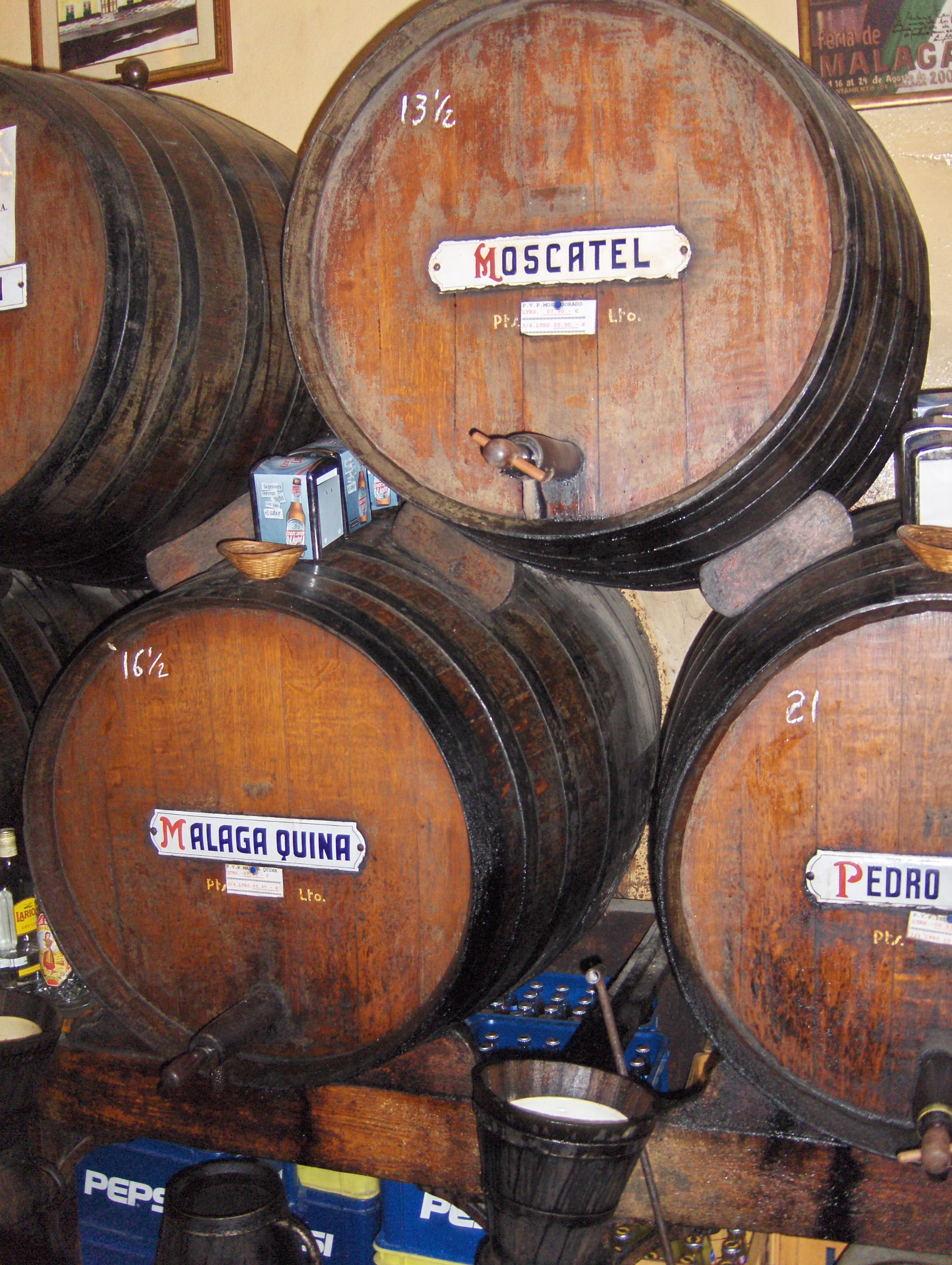 Malaga Wine barrels in Antigua Casa de Guardia, Malaga, Spain.